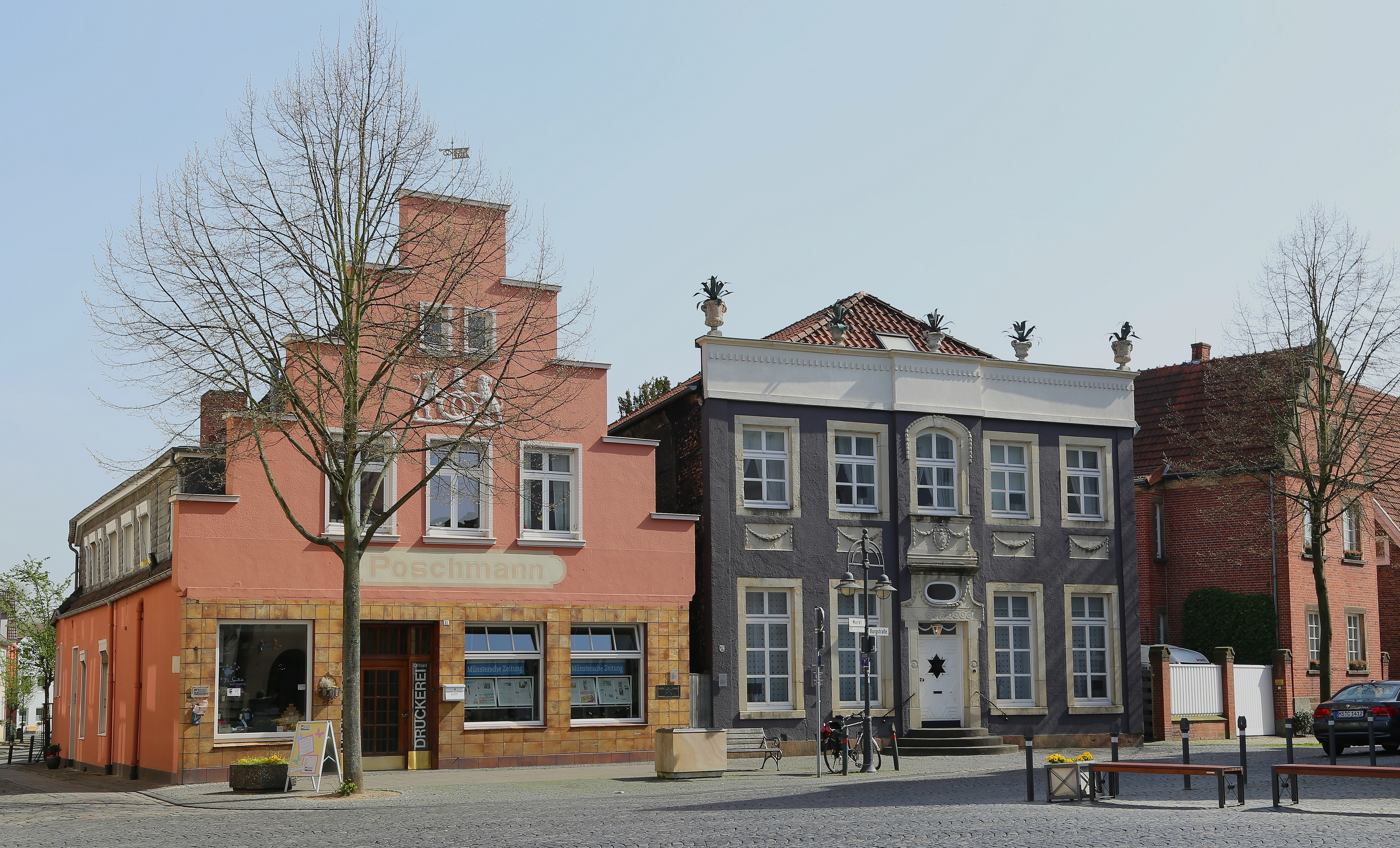 Lindemann House (Haus Lindemann), 11 Market (Markt 11), and Pieter van der Swaagh House (Haus Pieter van der Swaagh), 13 Market (Markt 13), in Steinfurt-Burgsteinfurt, Kreis Steinfurt, North Rhine-Westphalia, Germany.